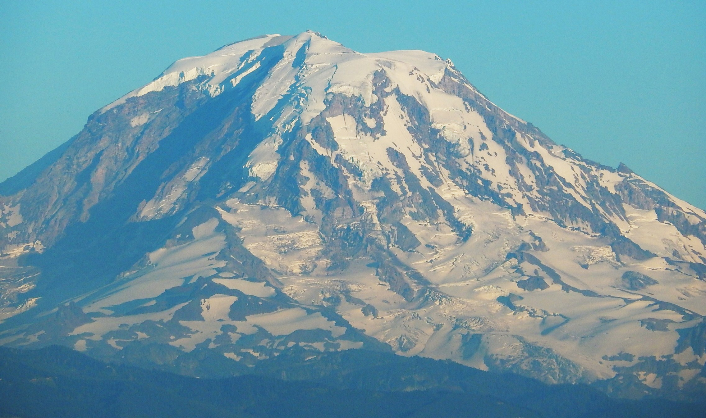 Mount Rainier seen from Auburn's Centennial Viewpoint Park at sunset. Annotations for Mowich Face, North Mowich Glacier, Liberty Cap, Liberty Cap Glacier.